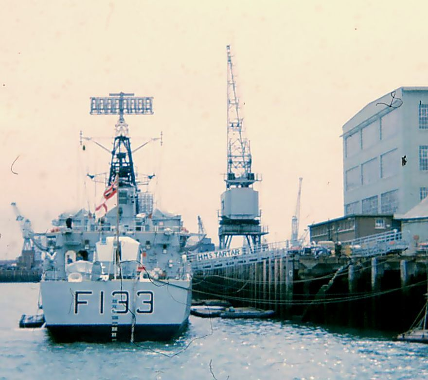 The Royal Navy frigate F133 HMS Tartar on the Naval base in Portsmouth, England. July 1977.